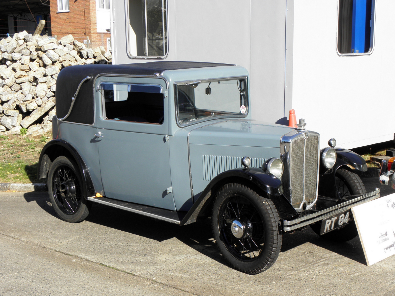 1932 Morris Minor Special Coupé (DVLA) first registered 27 January 1932, 885 cc Ipswich Transport Museum